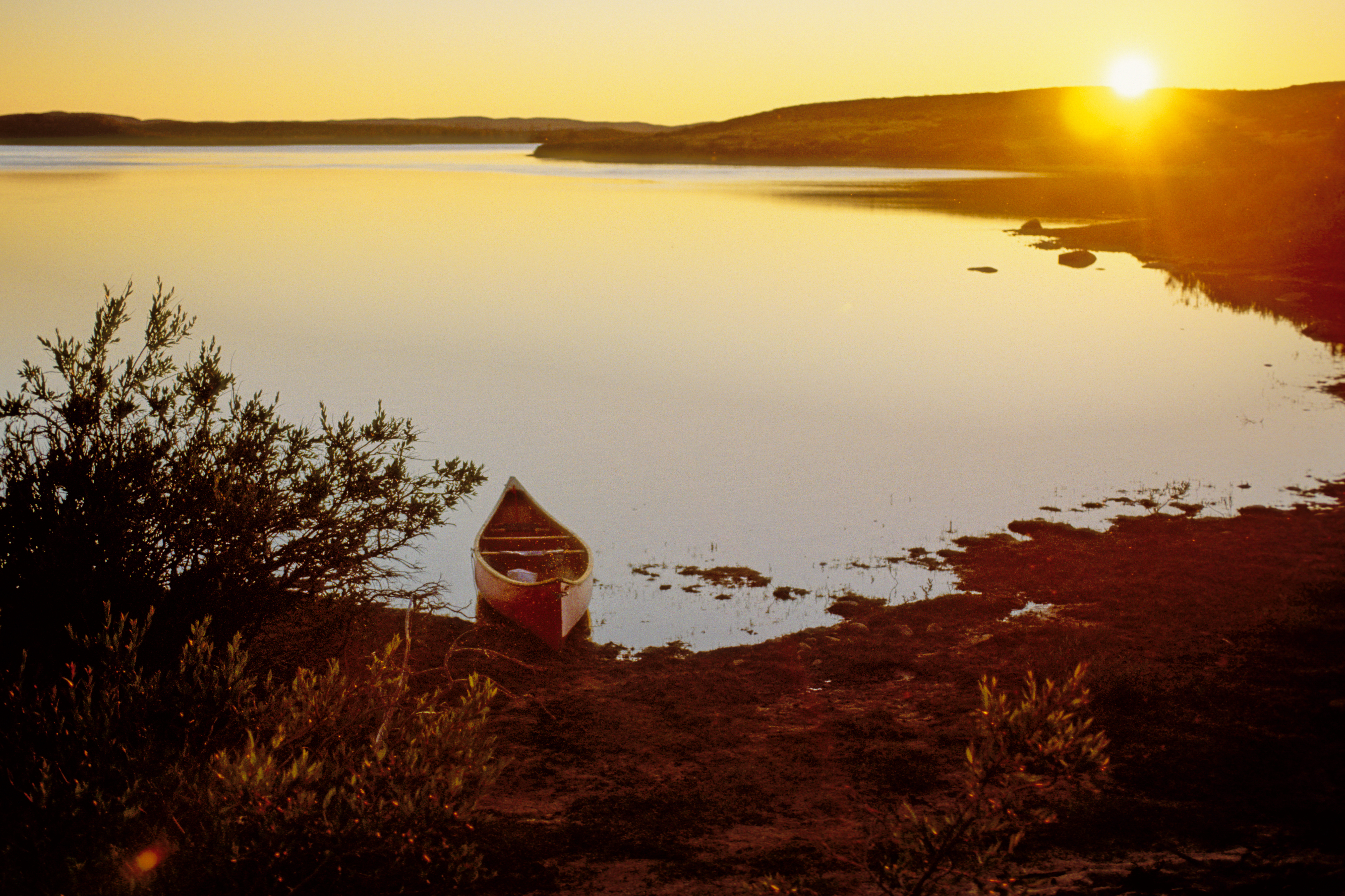 Sunset on the Nastapoka River